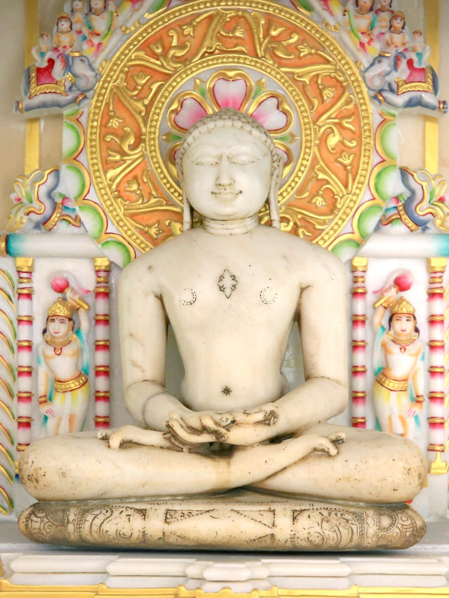 Lord Munisubrat ( idol vikram samvat 1400 )